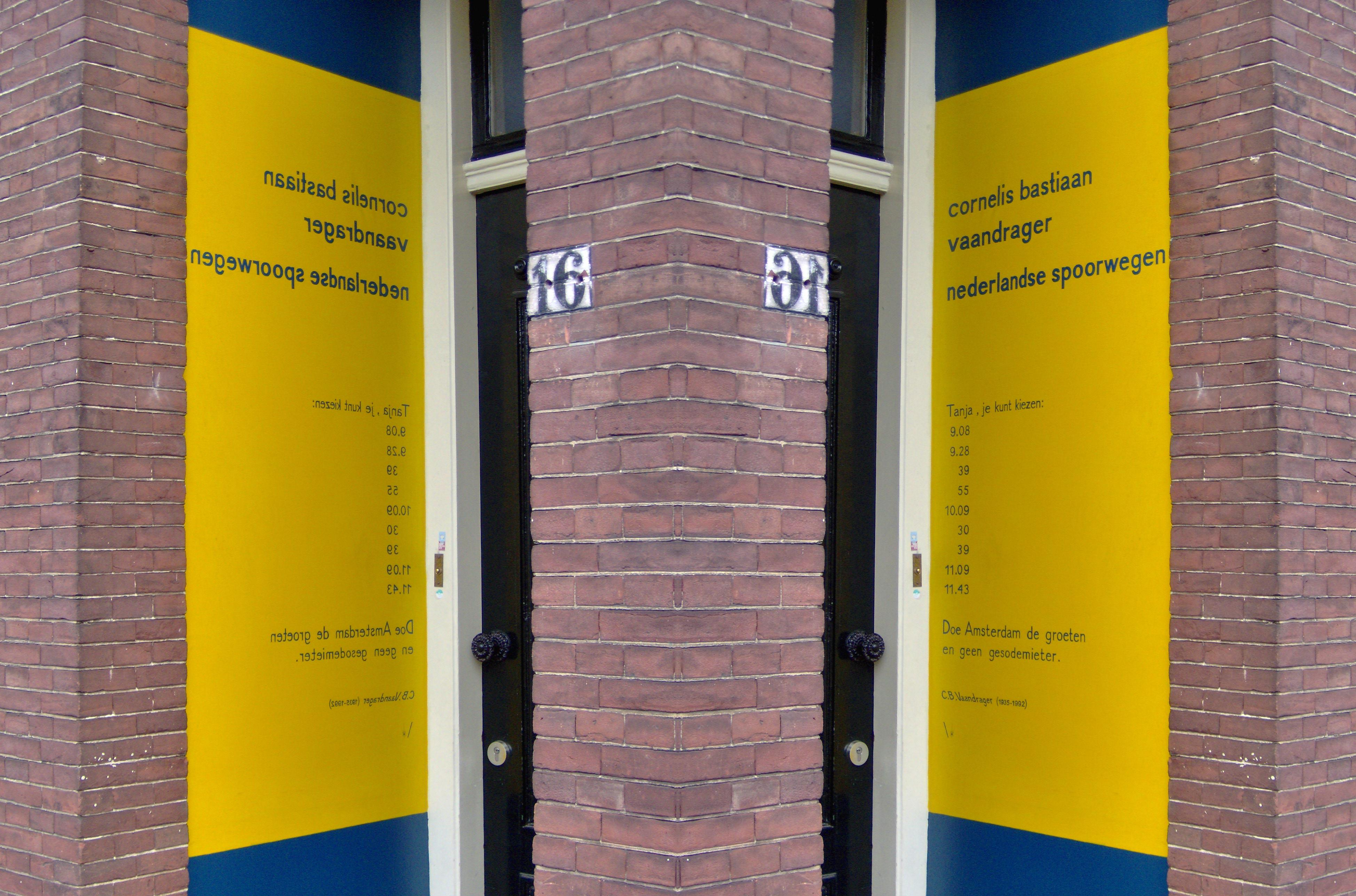 The poem Nederlandse Spoorwegen (Dutch railways) of the Dutch poet Cornelis Bastiaan (Cor) Vaandrager in the porch of the building at the Morsweg 16 in Leiden, The Netherlands. A mirror on the other side of the porch makes the poem readable. Over here the original picture has been mirrored and the mirrored image was pasted next to the original image.